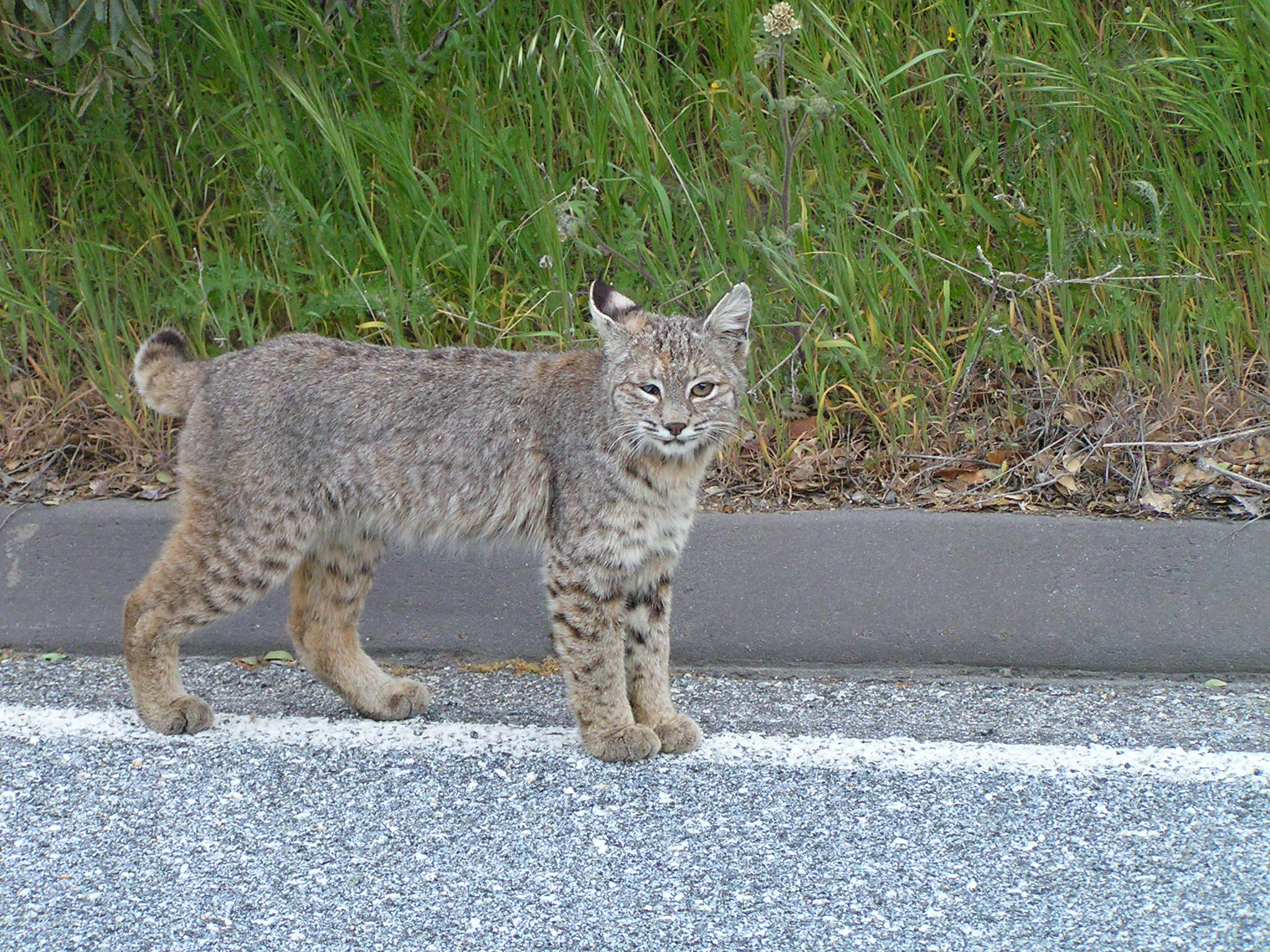 Bobcat (Lynx rufus) kitten (one-eyed) at Generals Highway, ca. 580 m a.s.l., Sequoia N.P., California, USA Cachorro de lince rojo (Lynx rufus) tuerto en el Parque Nacional Secuoya, California, EEUU